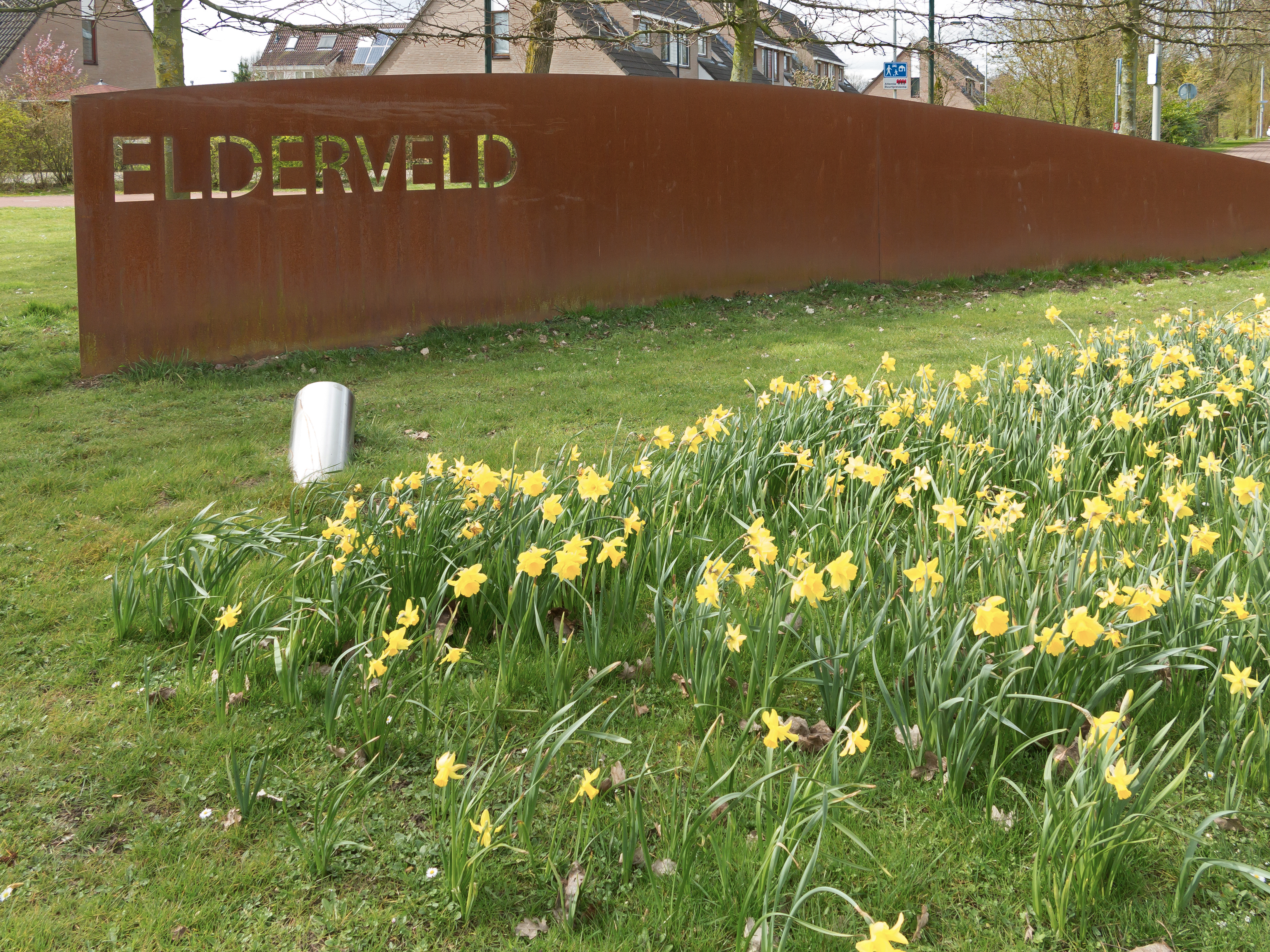 Arnhem-Elderveld, narcises at quarter entry